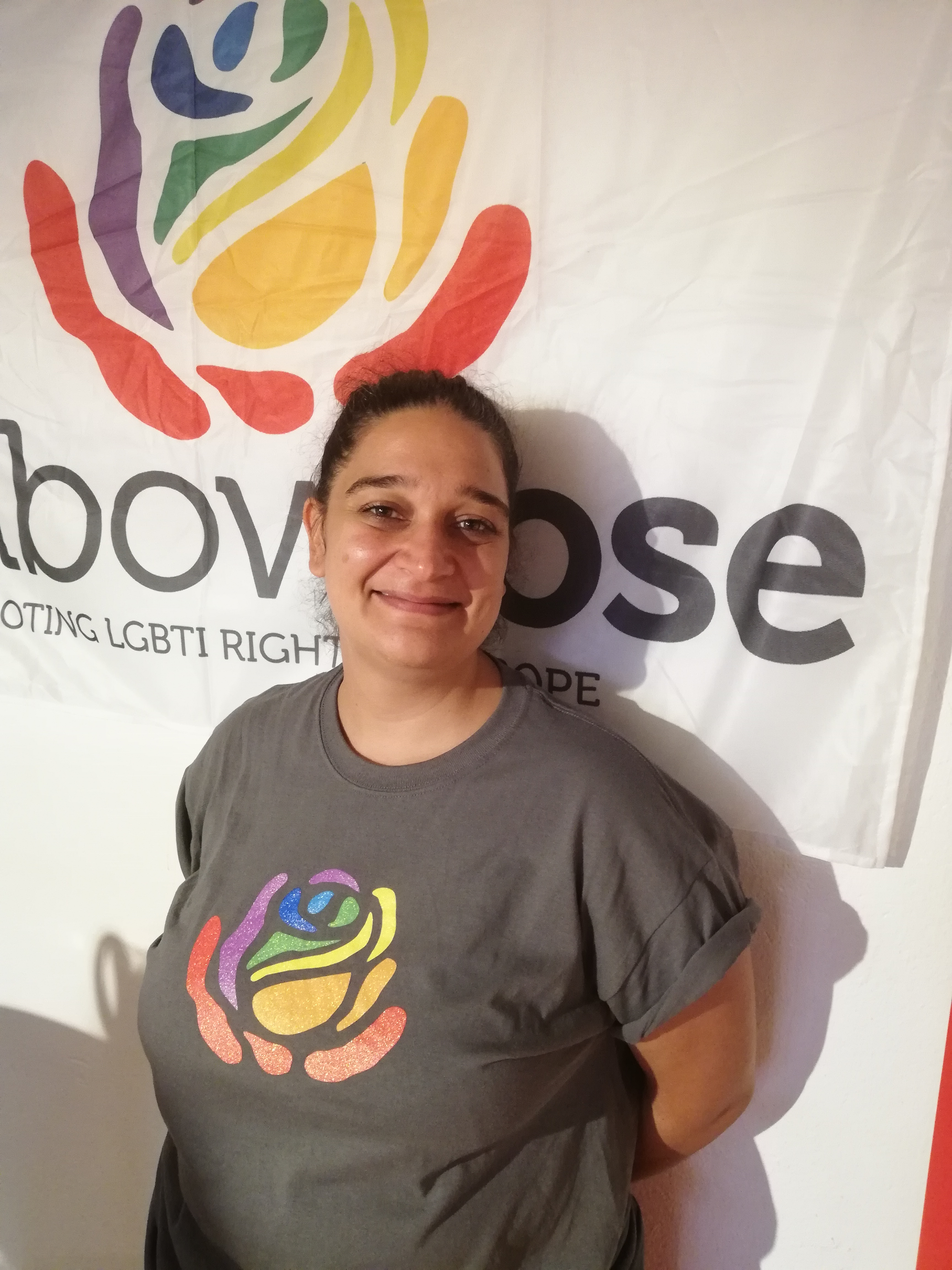 Sedef Çakmak, Turkish politician and LGBT activist at Europride in Stockholm